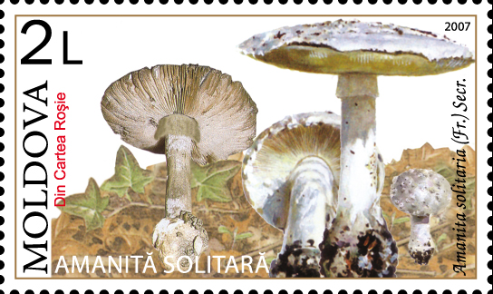 Stamp of Moldova